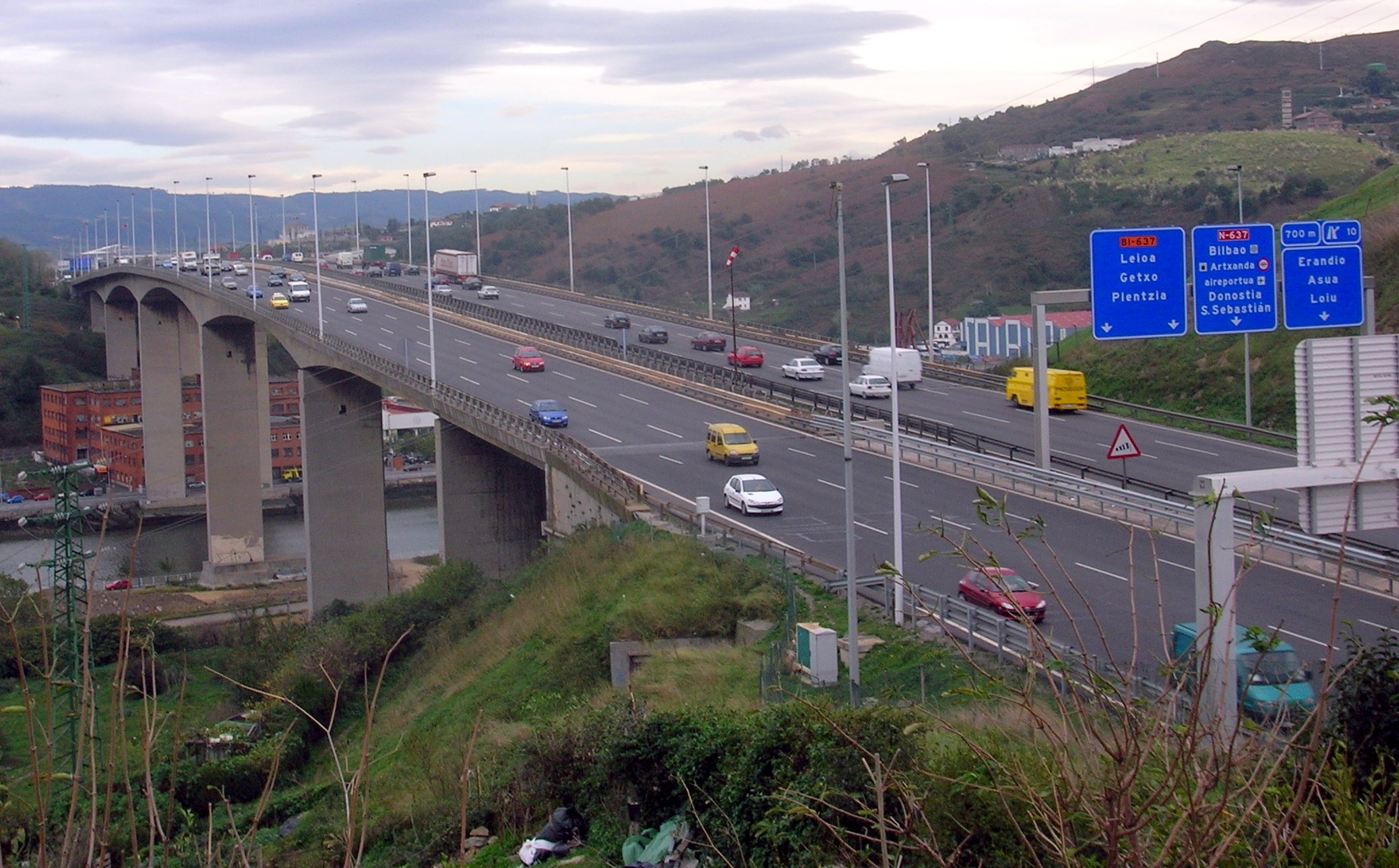 National Road 637 on Rontegi Bridge over the ria, between Erandio and Barakaldo.